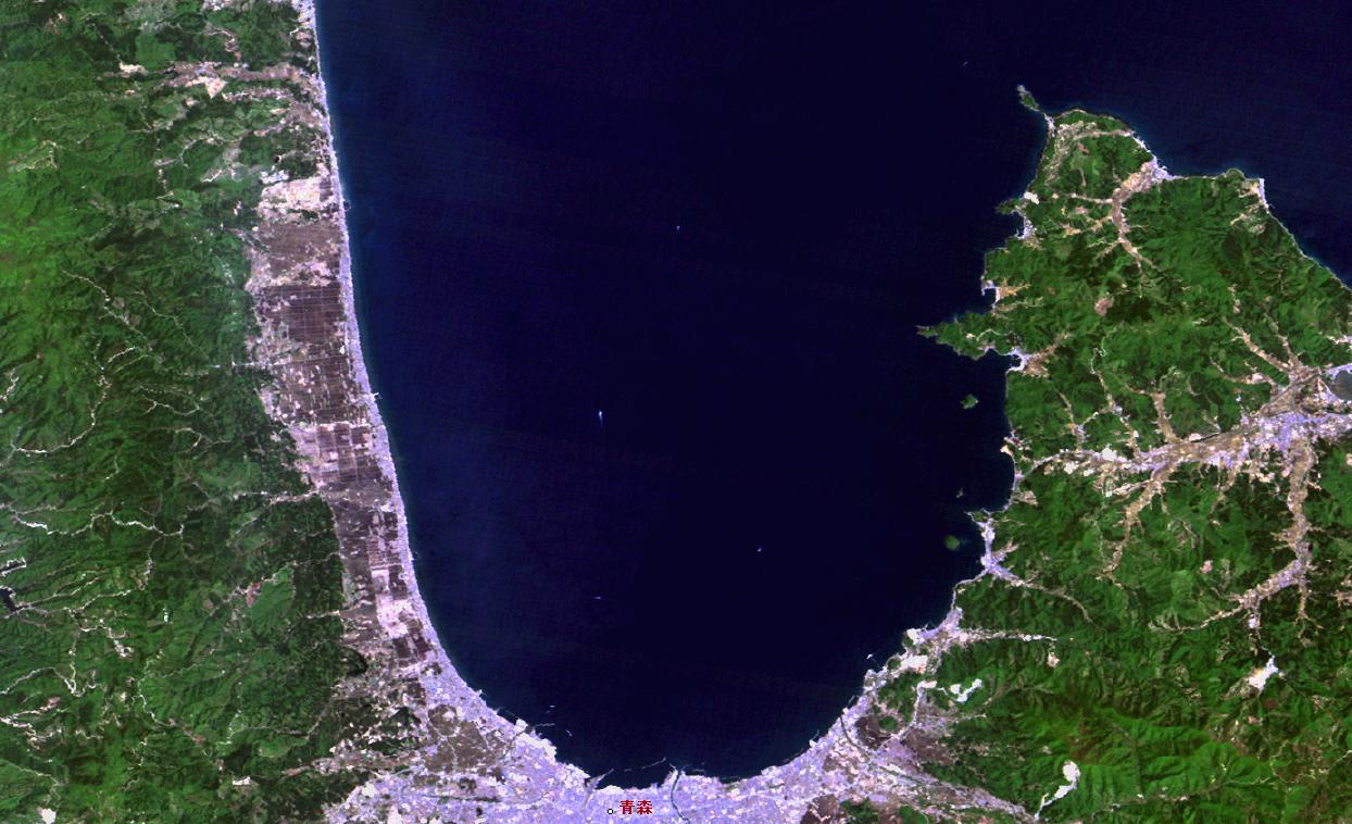 Aomori Gulf, Japan